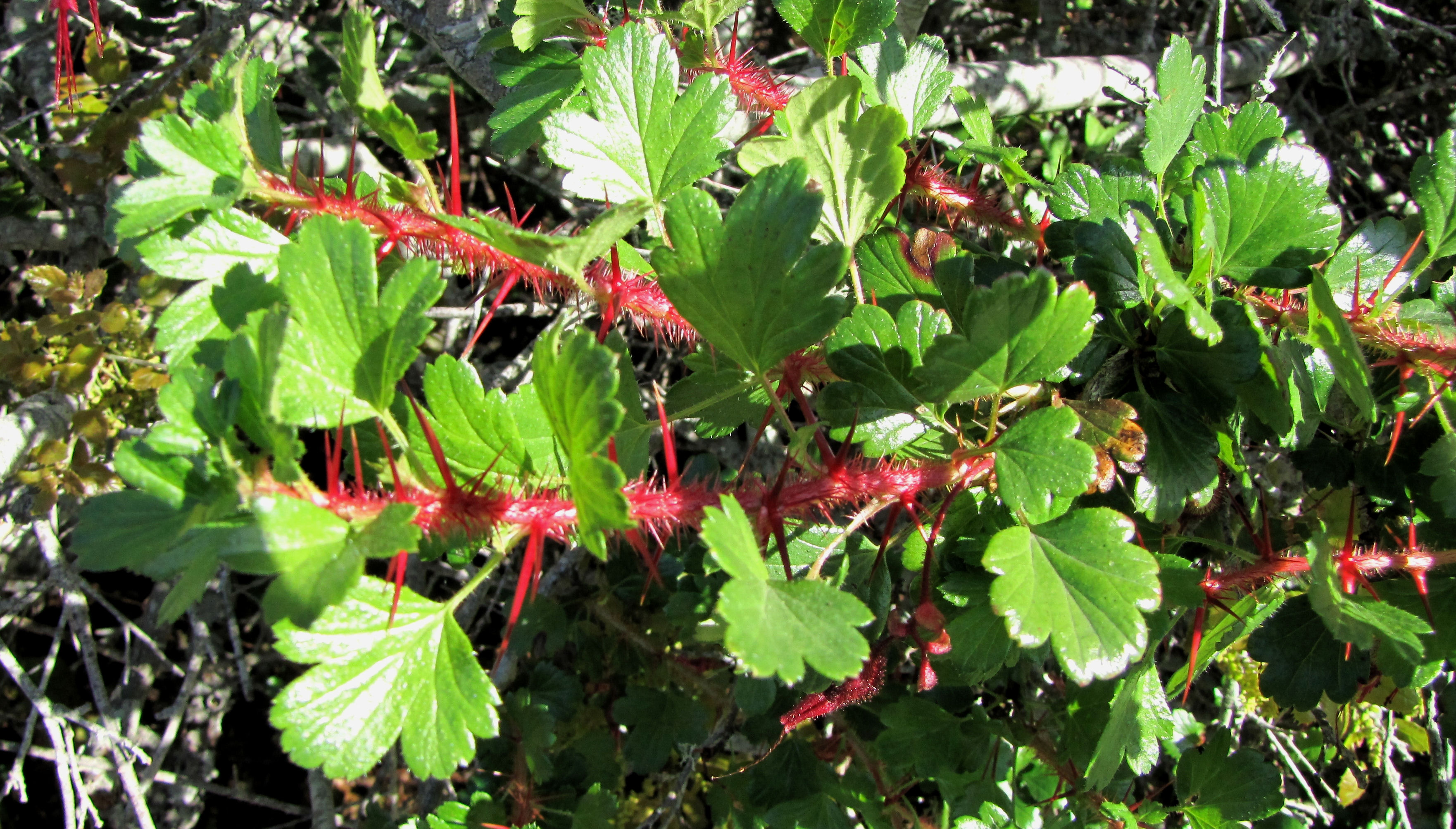 Ribes speciosum — Fuchsia flowering gooseberry (foliage). Location: El Moro Elfin Forest Natural Preserve, in Los Osos on Morro Bay, western San Luis Obispo County, California. Link